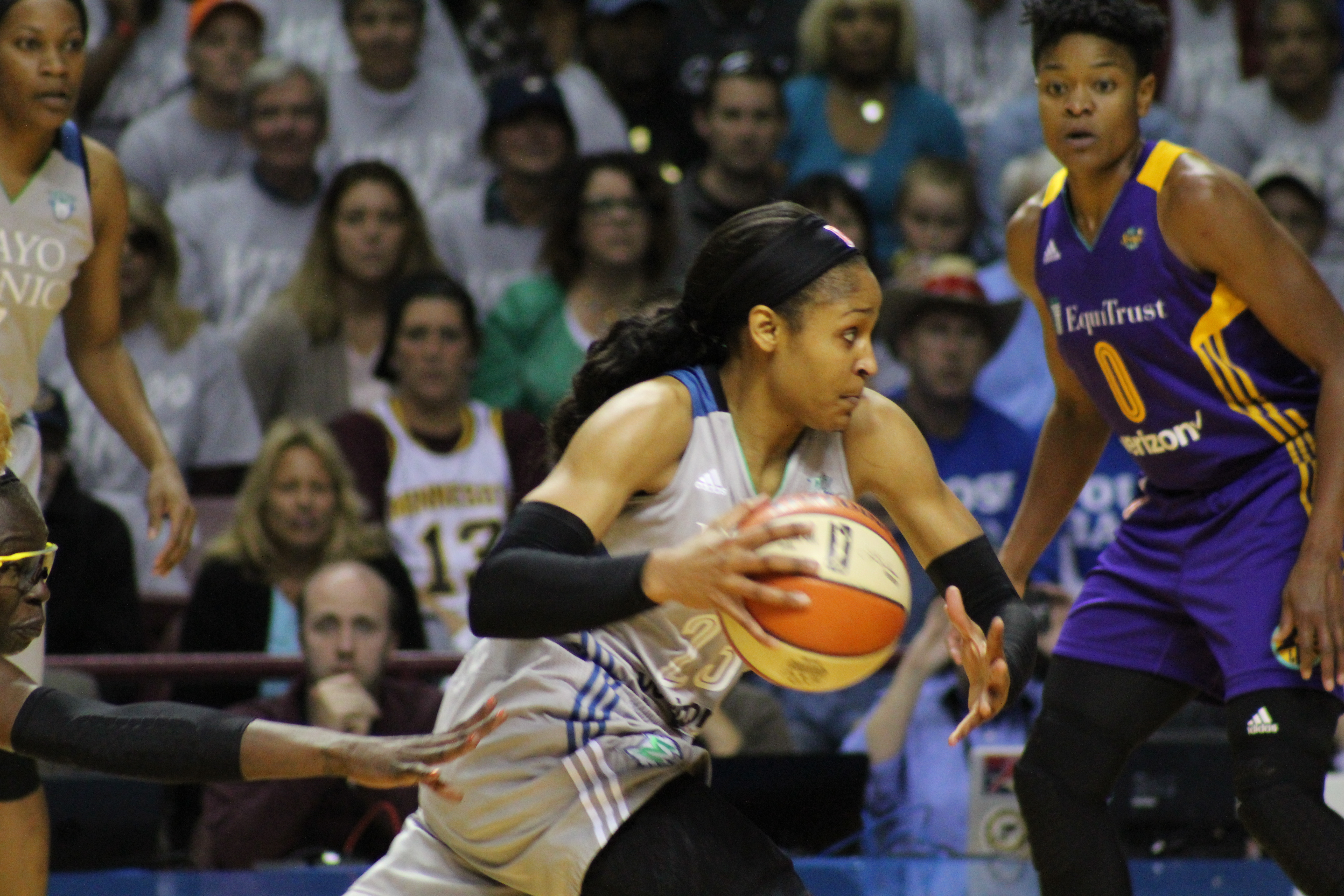 Maya Moore of the Minnesota Lynx during game 5 of the WNBA Finals in 2017. At left, top to bottom, are Jia Perkins of the Lynx and Essence Carson of the Los Angeles Sparks. At right is Alana Beard of the Sparks.